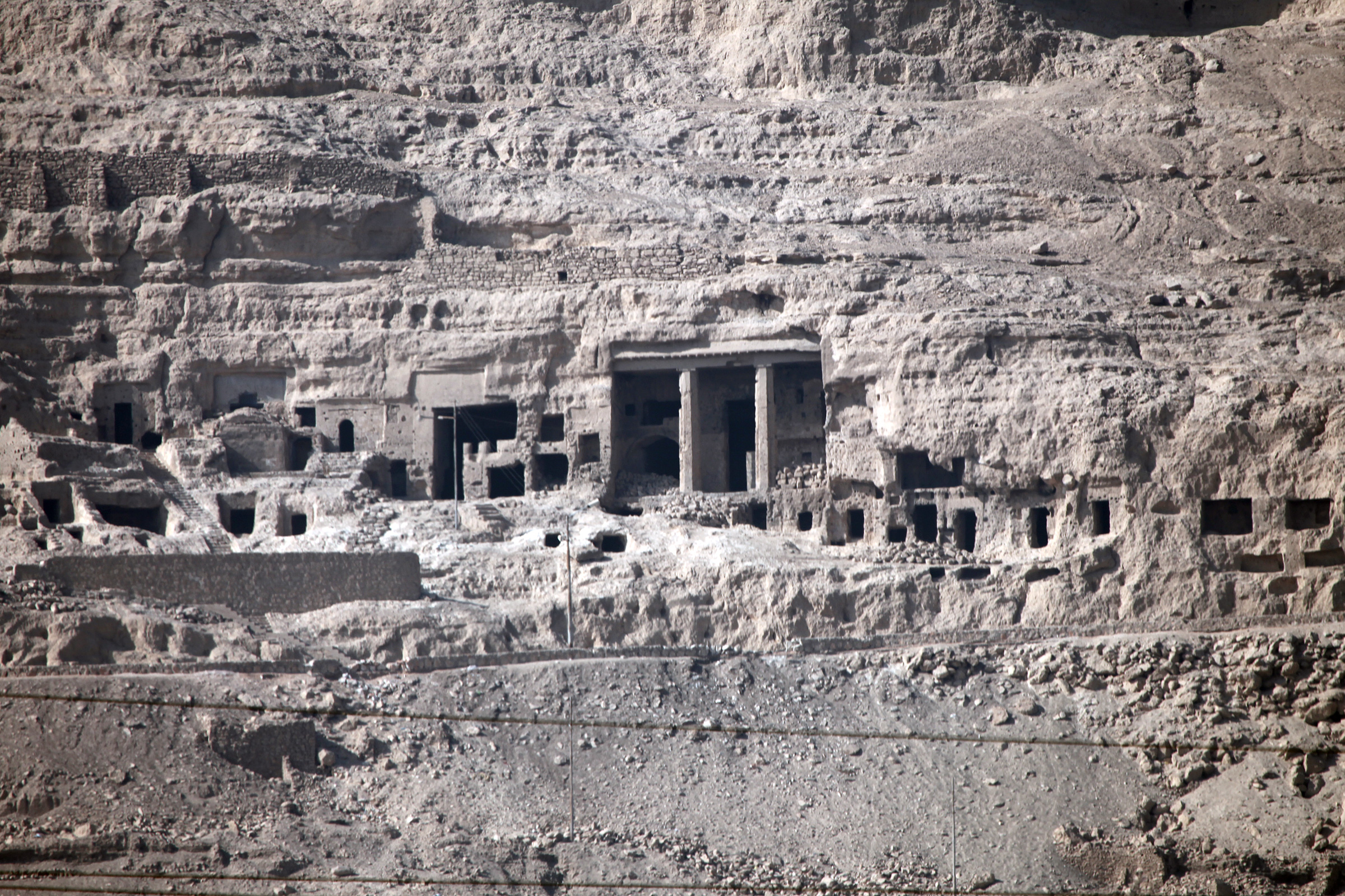 Deir Rifeh toms, Asyut governorate, Egypt